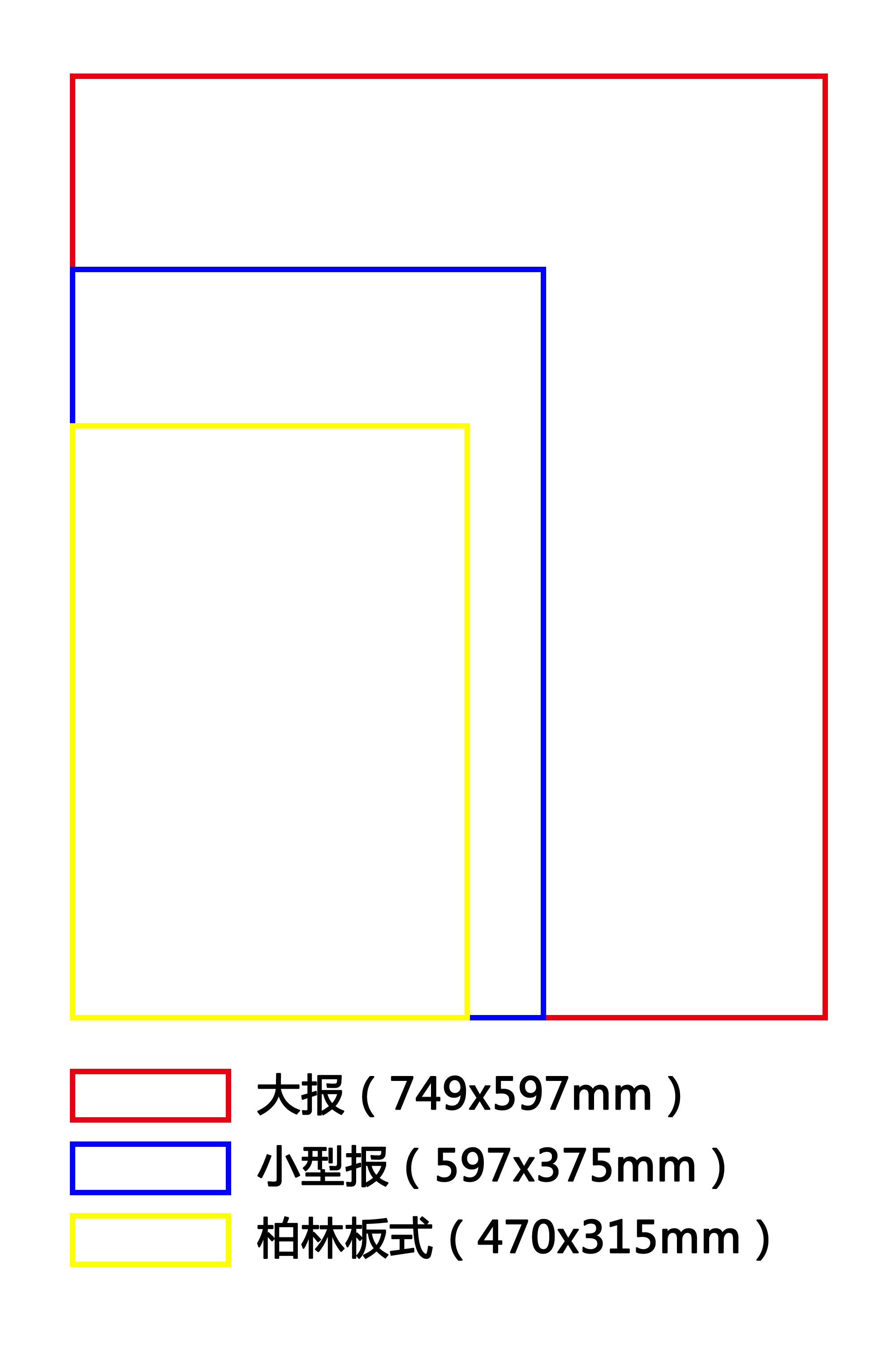 Comparison of some newspaper sizes.